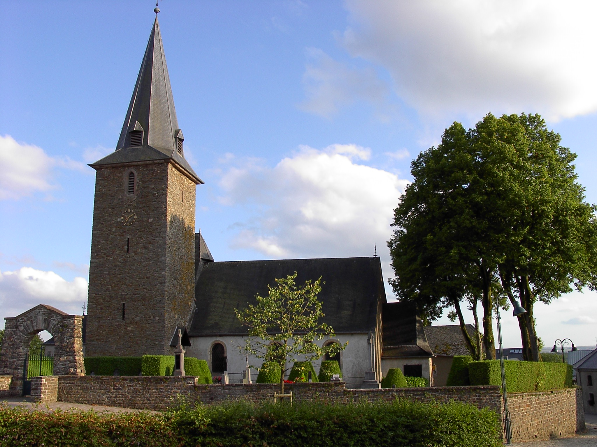 Church of the town of Munshausen, photographed by Pear99 on 19.08.2003. --Pear99 13:55, 2 August 2006 (UTC)